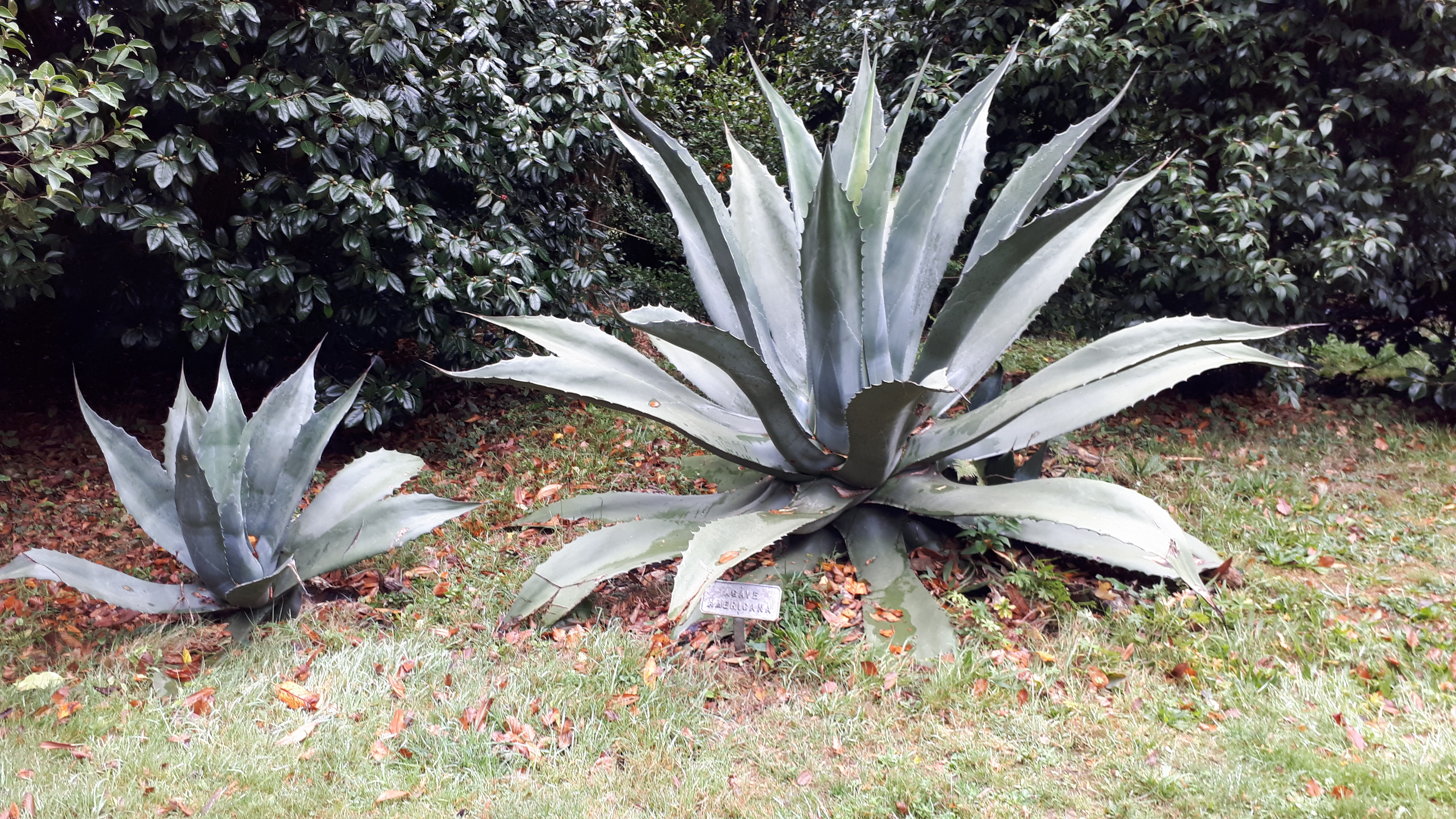 Agave americana in Glendurgan